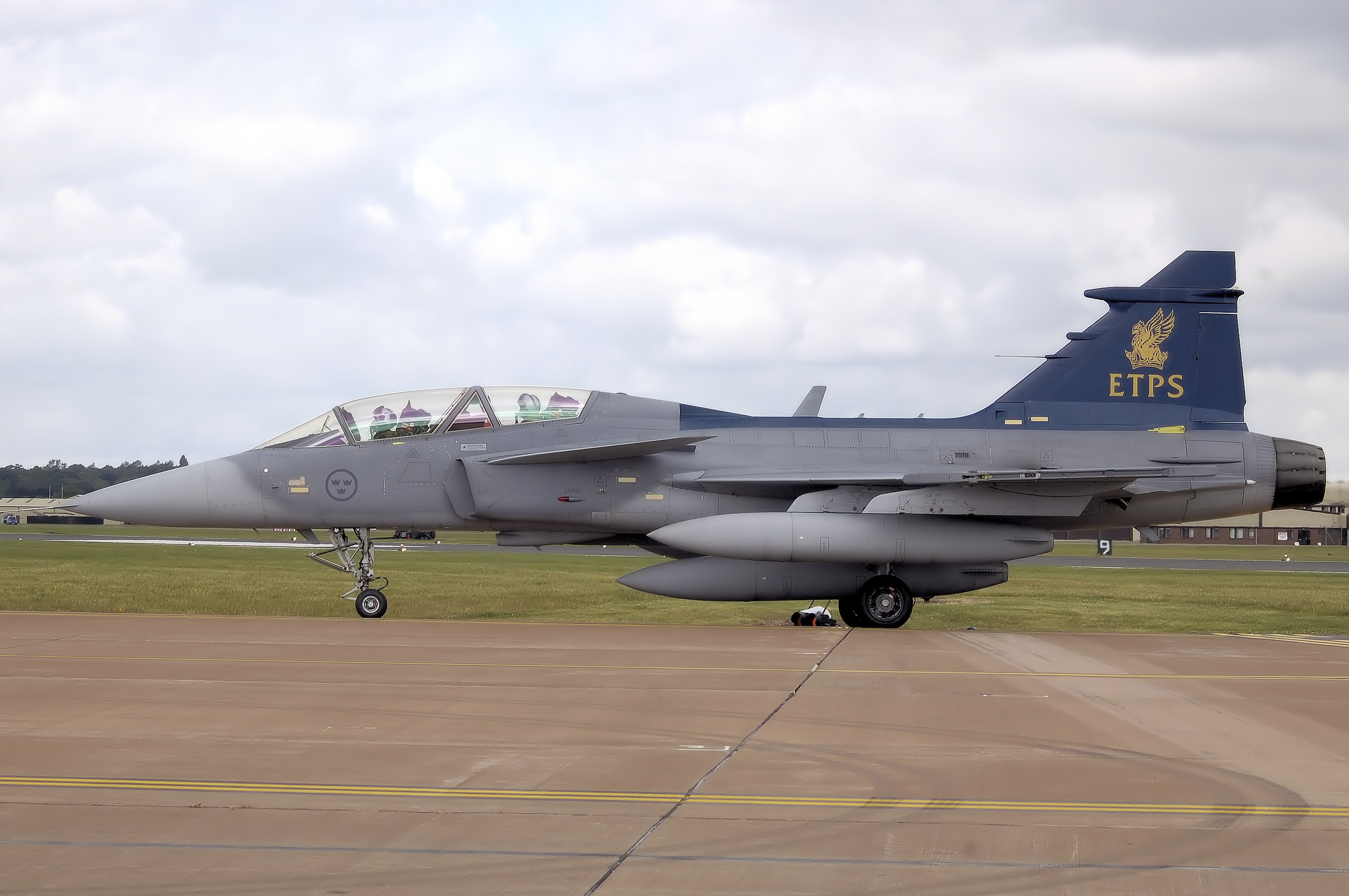 Empire Test Pilot’s School Saab JAS 39B Gripen taxis after landing at the 2008 Royal International Air Tattoo, RAF Fairford, Gloucestershire, England. The UK Empire Test Pilots’ School (ETPS) operates the Gripen as its advanced fast jet aircraft for training test pilots. Taken at RIAT Fairford on the Thursday before the weekend show days. Later, both show days (Saturday and Sunday) were cancelled because of waterlogged car parks.